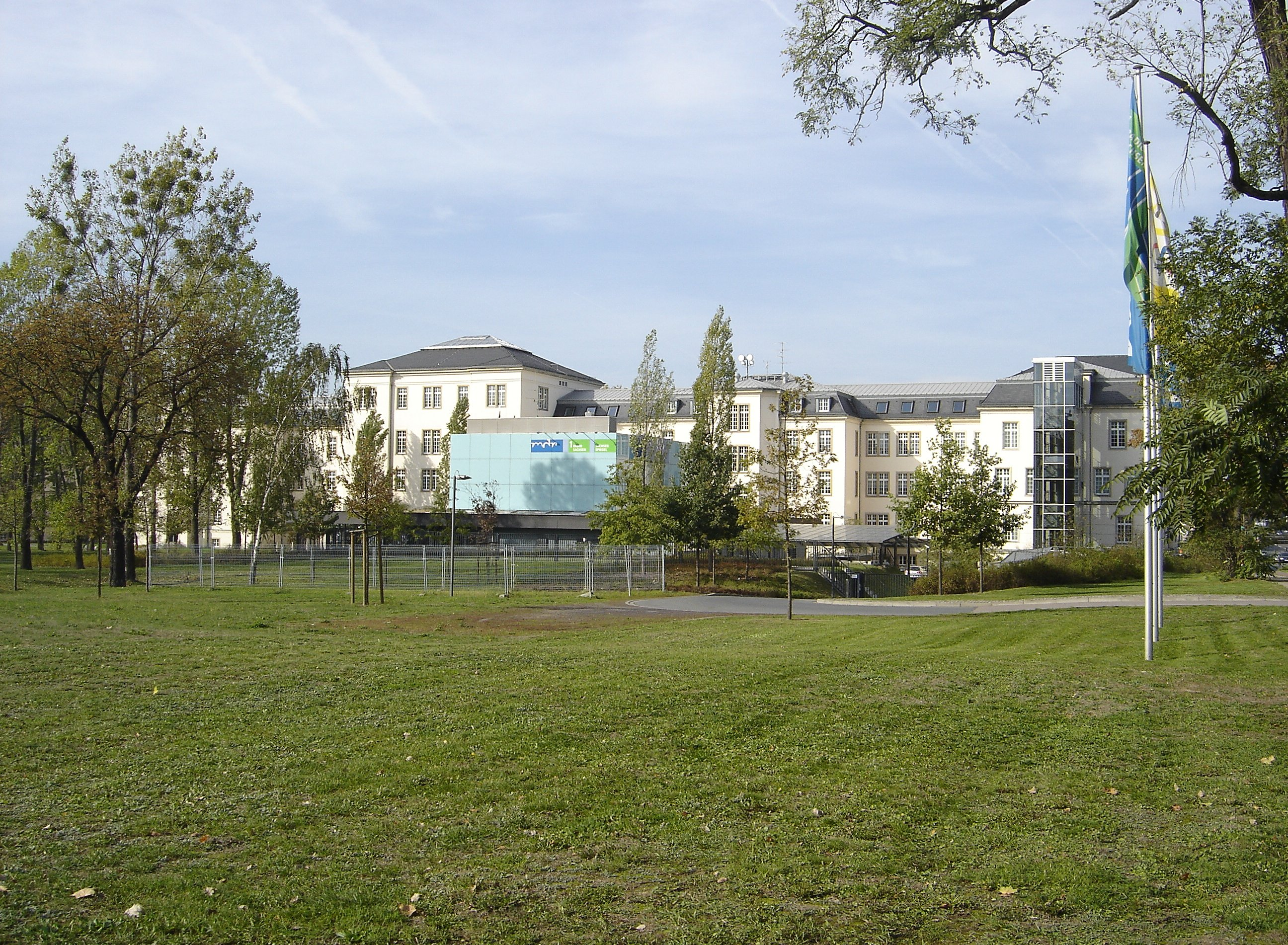 Saxon Broadcasting Center in Dresden